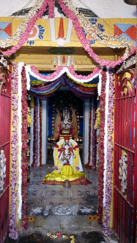 panduranga swamy temple moolavar